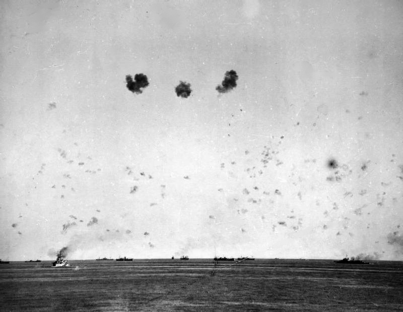 OPERATION PEDESTAL, AUGUST 1942. The Malta-going convoy under air attack showing the intense anti-aircraft barrage by the escorts. The battleship HMS Rodney is on the left and the cruiser HMS Manchester on the right.